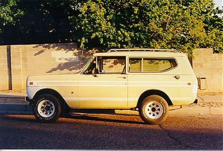 I took this picture of my yellow 1978 International Scout II. I am releasing it into the public domain.